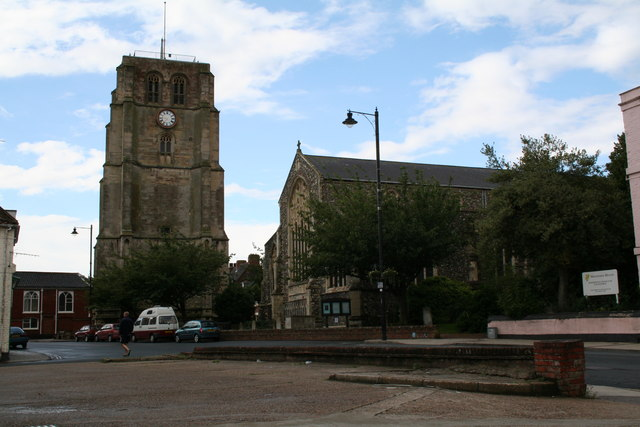 St. Michael's Church, Beccles, Suffolk: North face of tower As can be clearly seen here, an unusual feature of Beccles Church is that the tower is not conjoined to the nave.